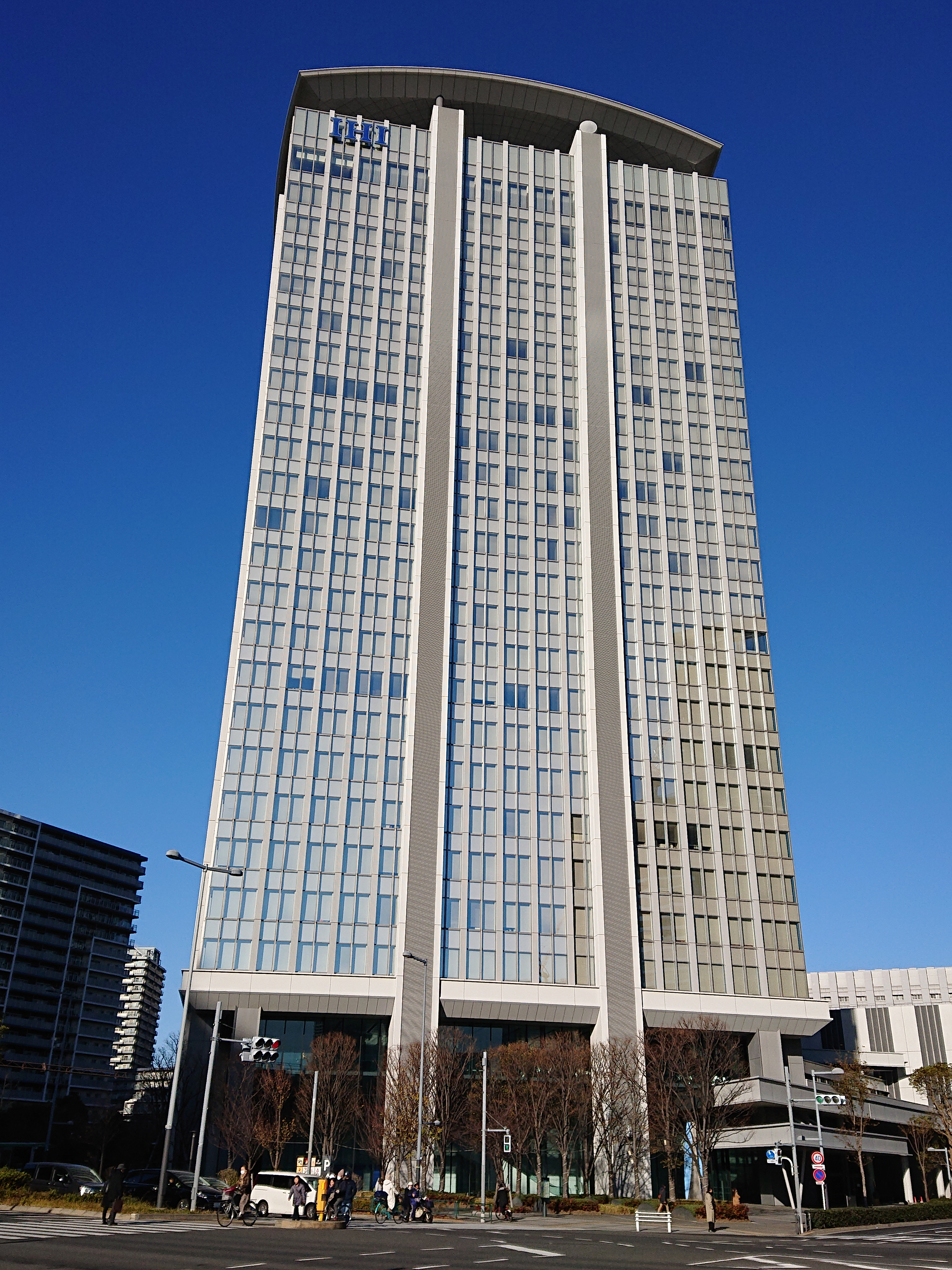 Toyosu IHI Building, located at 3-1-1 Toyosu, Koto, Tokyo, Japan